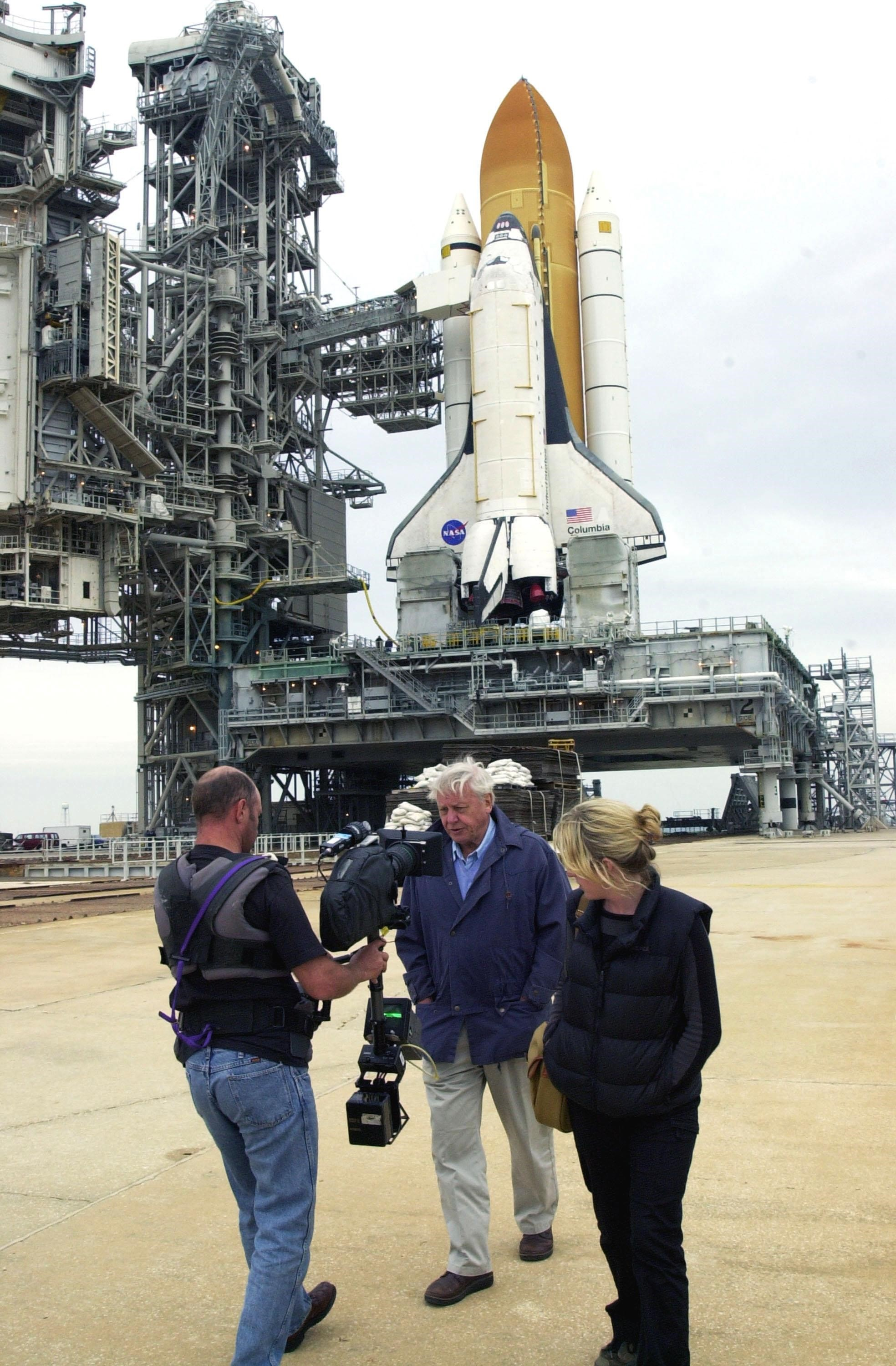 KENNEDY SPACE CENTER, FLA. - Sir David Attenborough (center) works with a film crew on Launch Pad 39A. Space Shuttle Columbia, atop the Mobile Launcher Platform, is seen in the background. At left are the Rotating Service Structure, which is open, and the Fixed Service Structure. Attenborough is filming commentary for a documentary